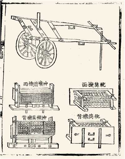 500 year old hwacha (火車) instruction manual